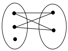 Chứng Minh Chiều Thuận